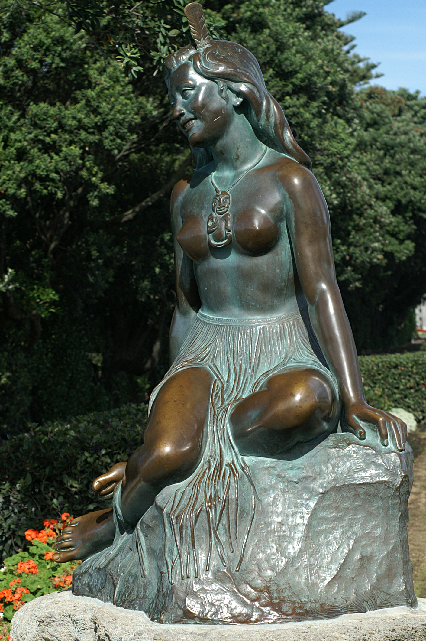 Pania of the Reef statue in Napier, New Zealand